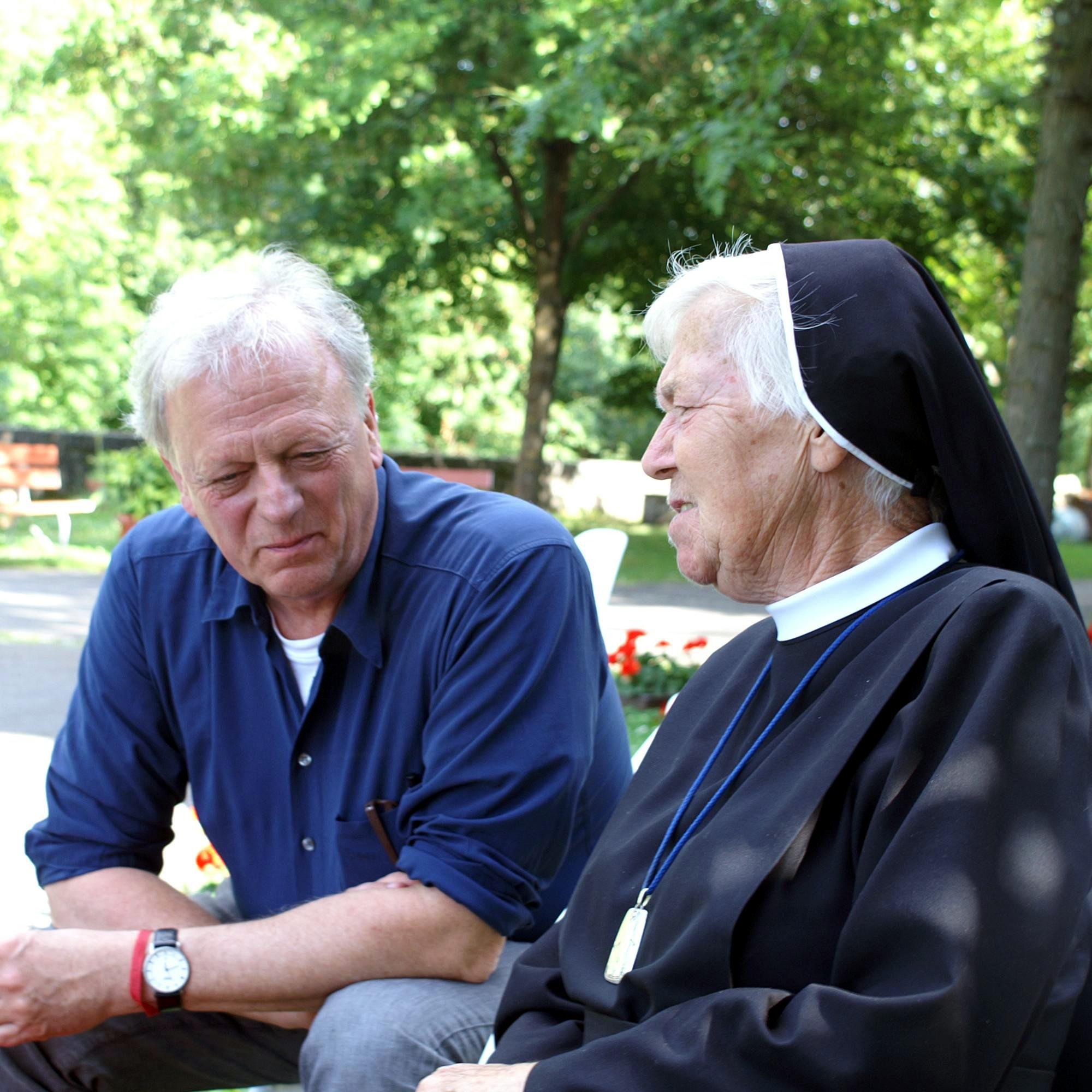 Johannes Gottfried Mayer und Sr. Leandra Ulsamer in Kloster Oberzell, July 2014.